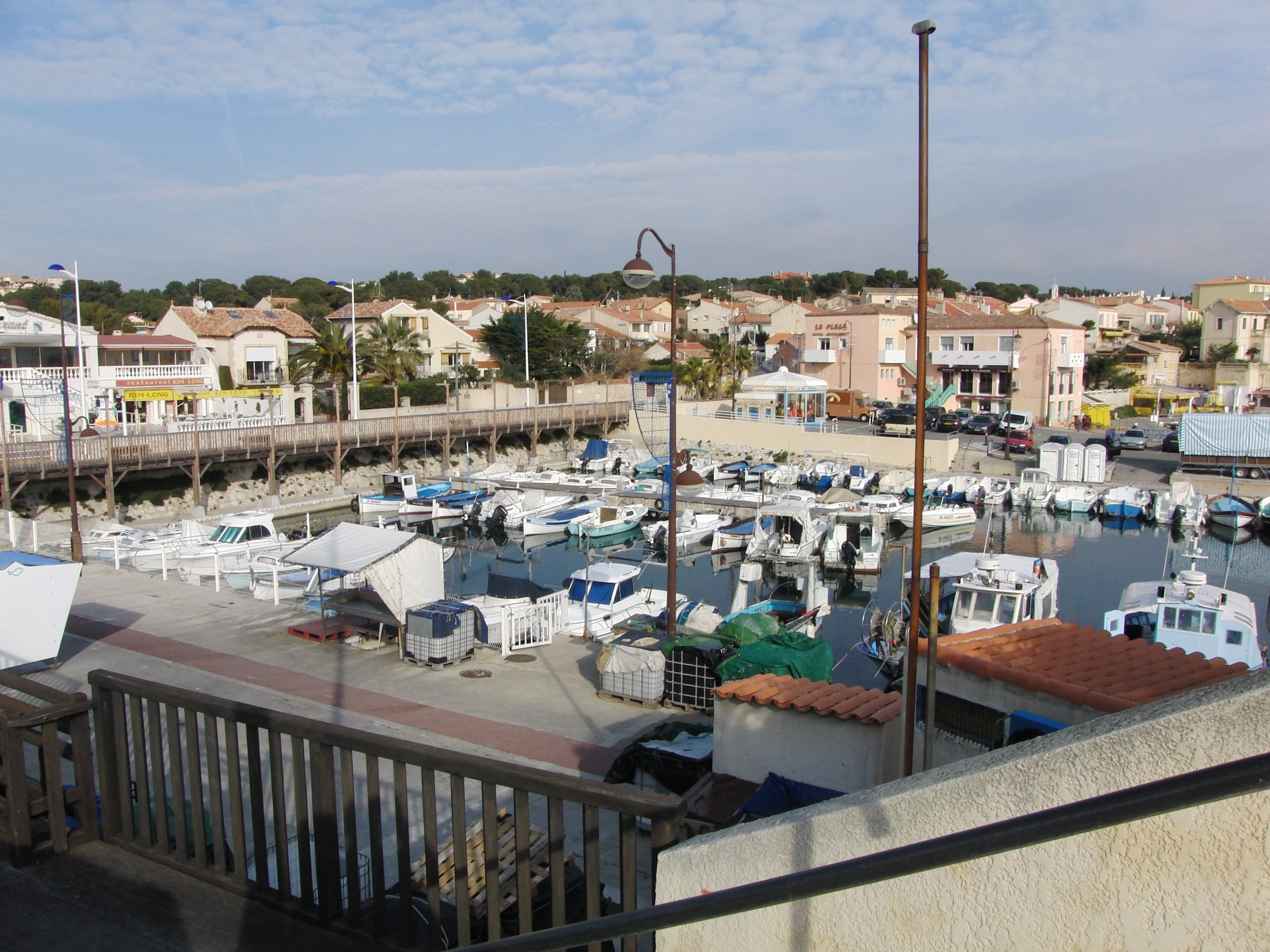 Harbour of Sausset-les-Pins, Bouches-du-Rhône, France